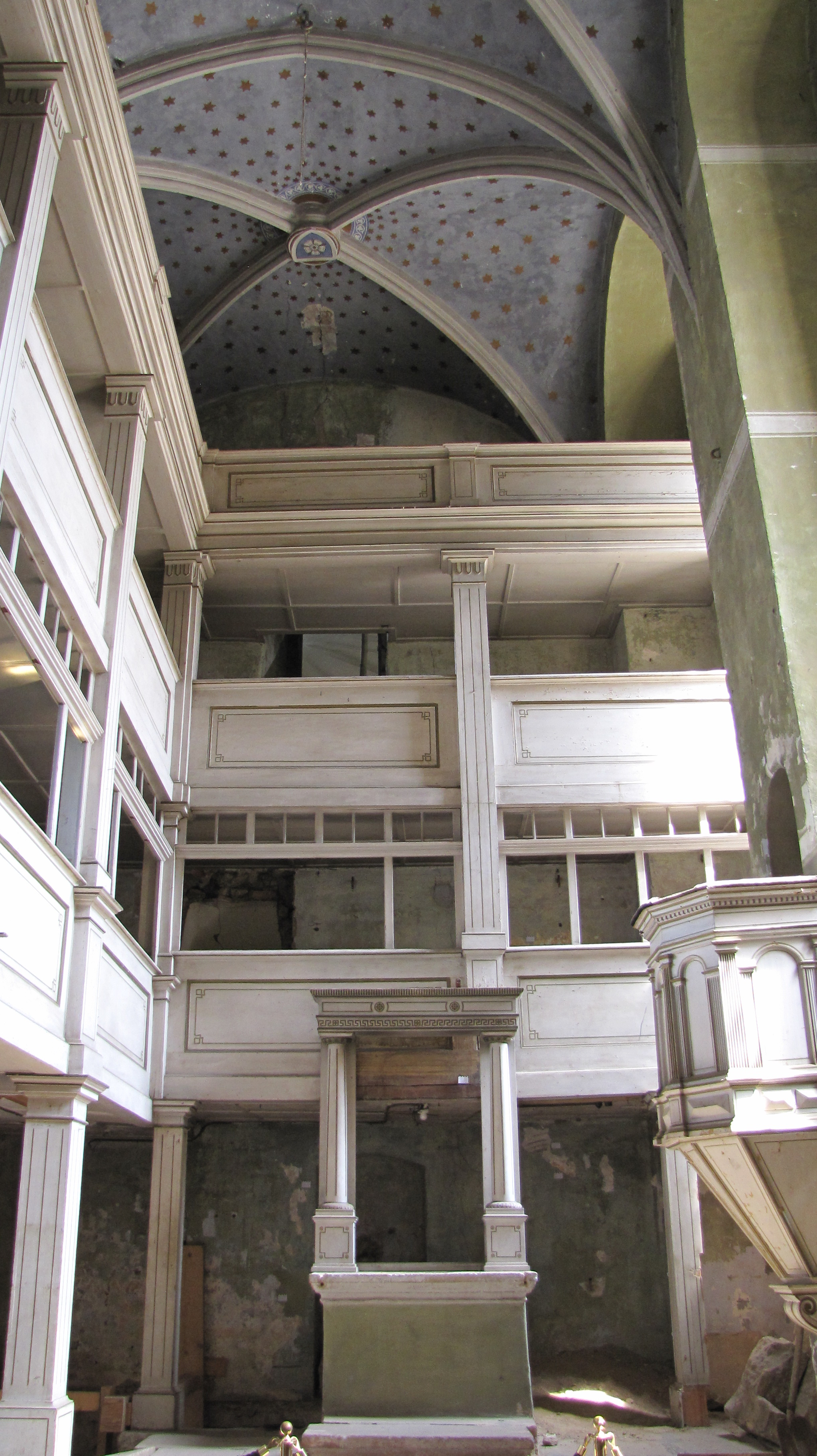 Chapel of Colditz Castle